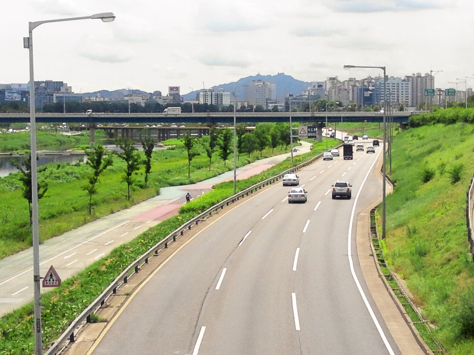 Korea Urbanexpressway - Seoul Dongbu Arterial Highway(Eastern Arterial Highway) Gunja IC Br. and Songjeong Br.